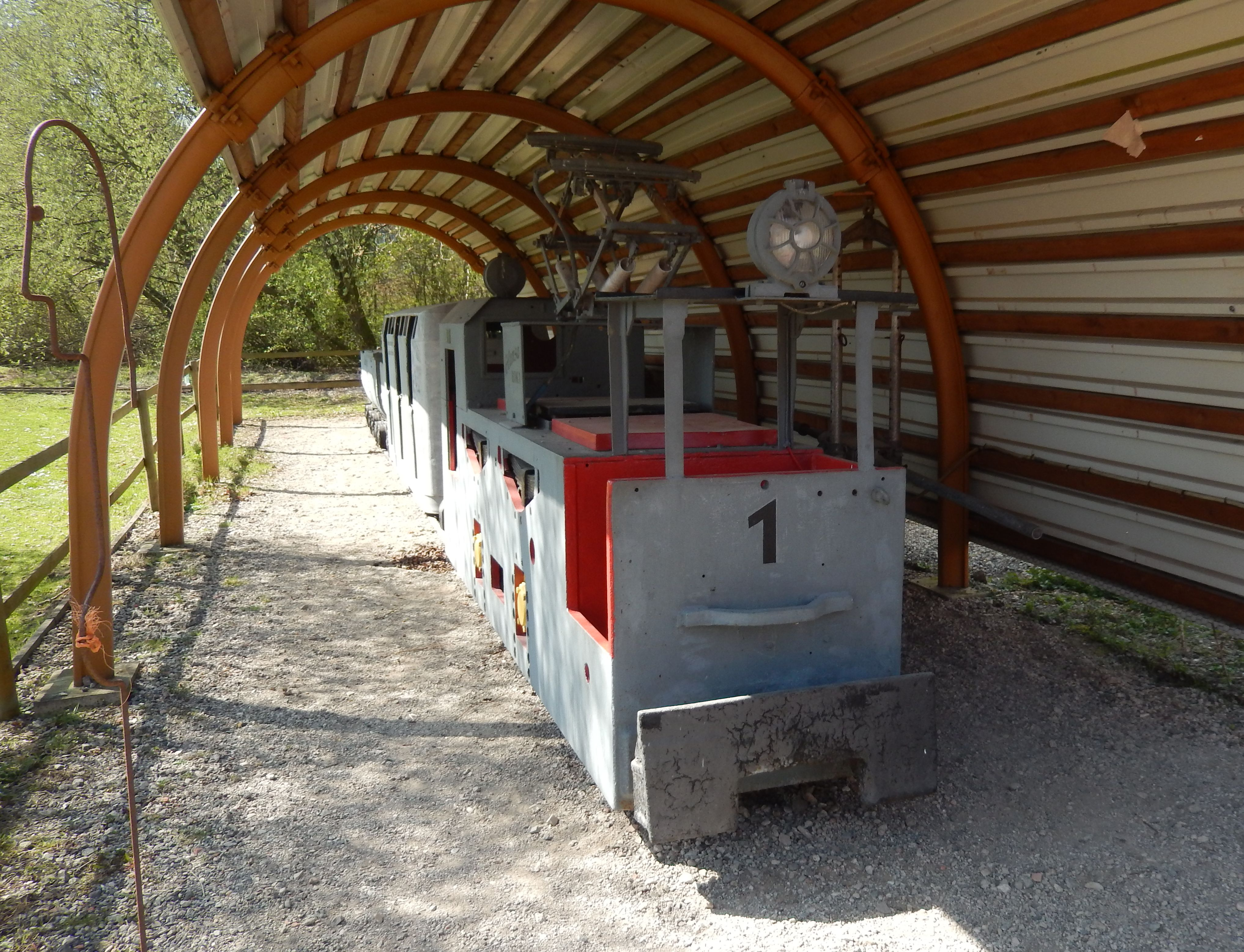 Salt mining museum in Empelde near Hannover, Germany.